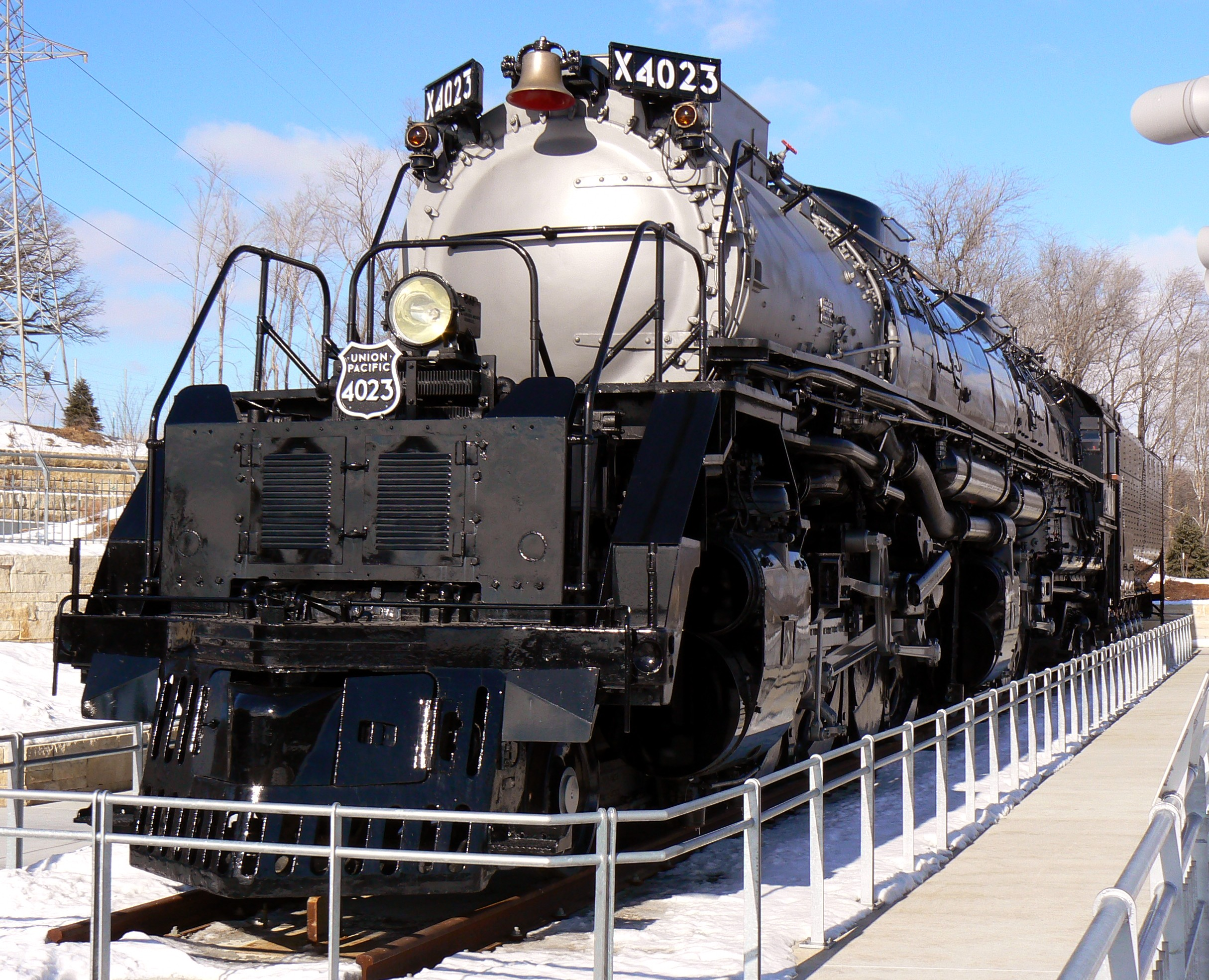 Union Pacific steam locomotive "Big Boy 4023"